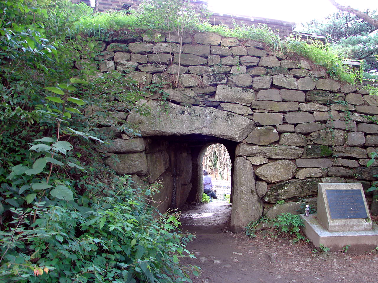 Gate from inside Namhan Sanseong leading to lookout point